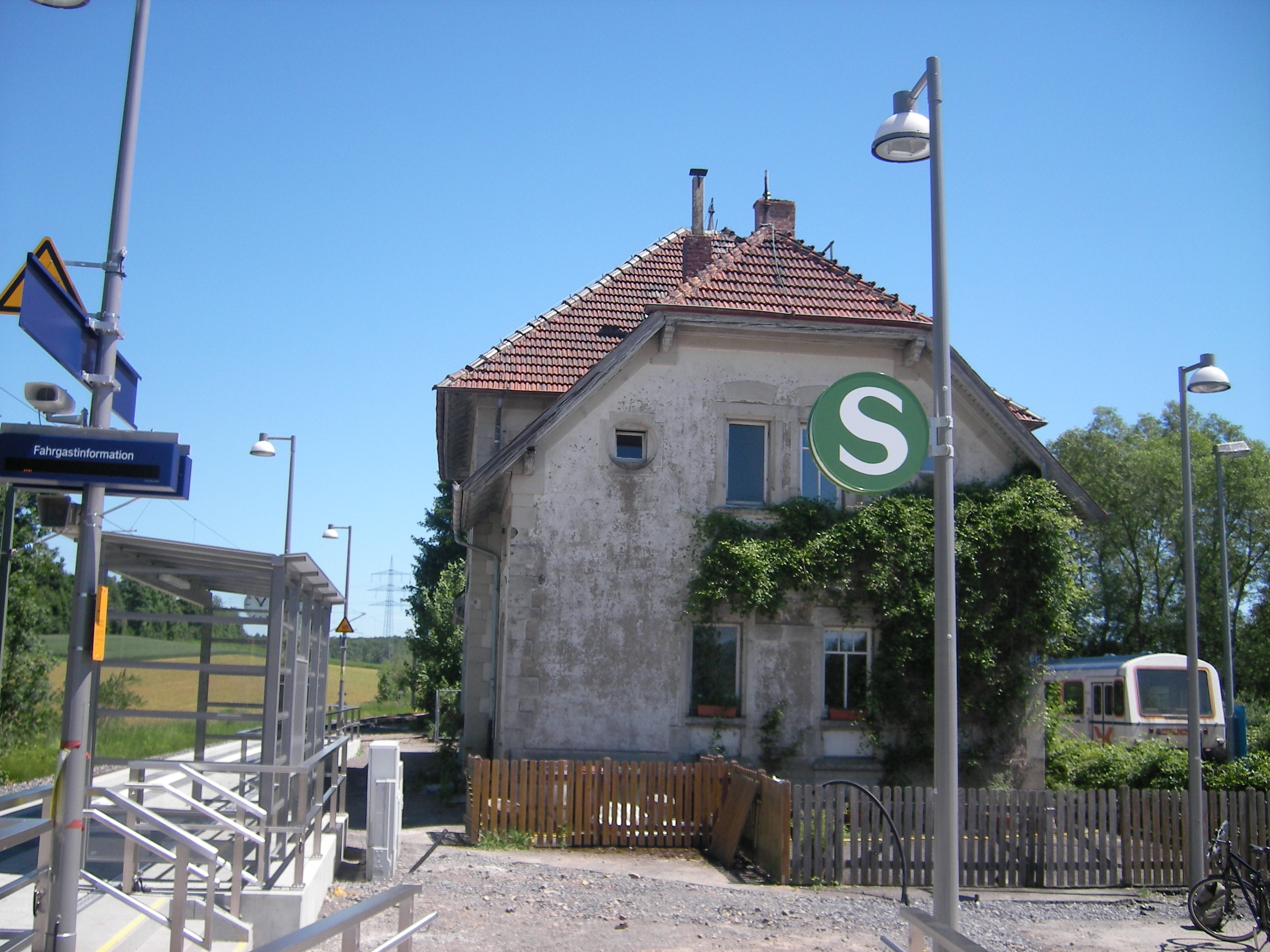 Train station Neckarbischofsheim Nord; located at the Schwarzbachtalbahn. From here, the Krebsbachtalbahn branches.